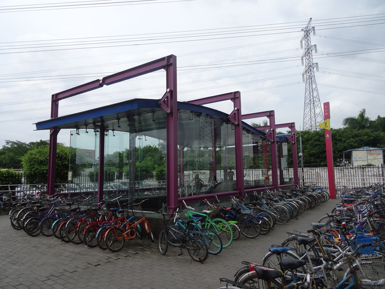 會江站嘅A出入口